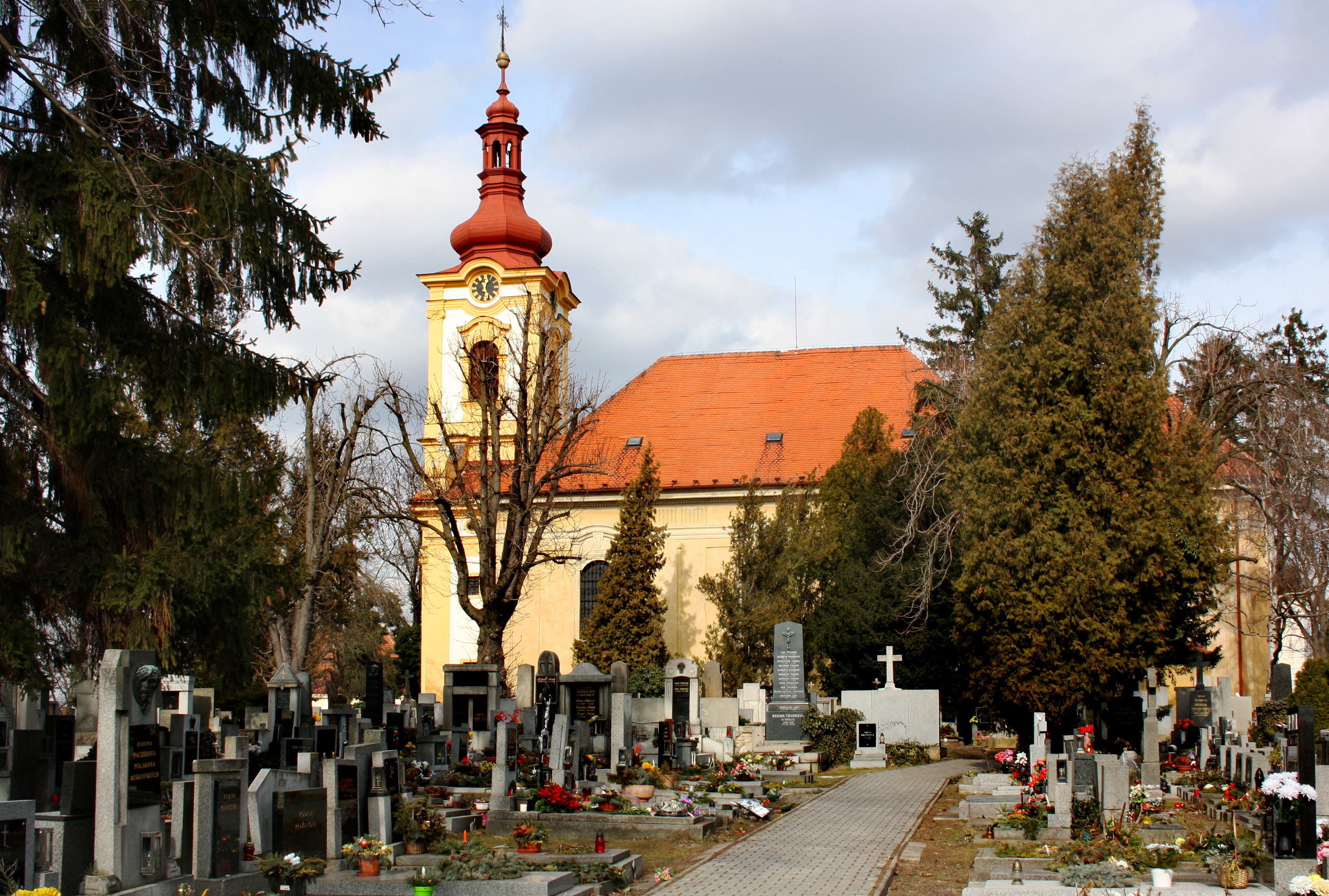 Church in Líbeznice, Czech Republic